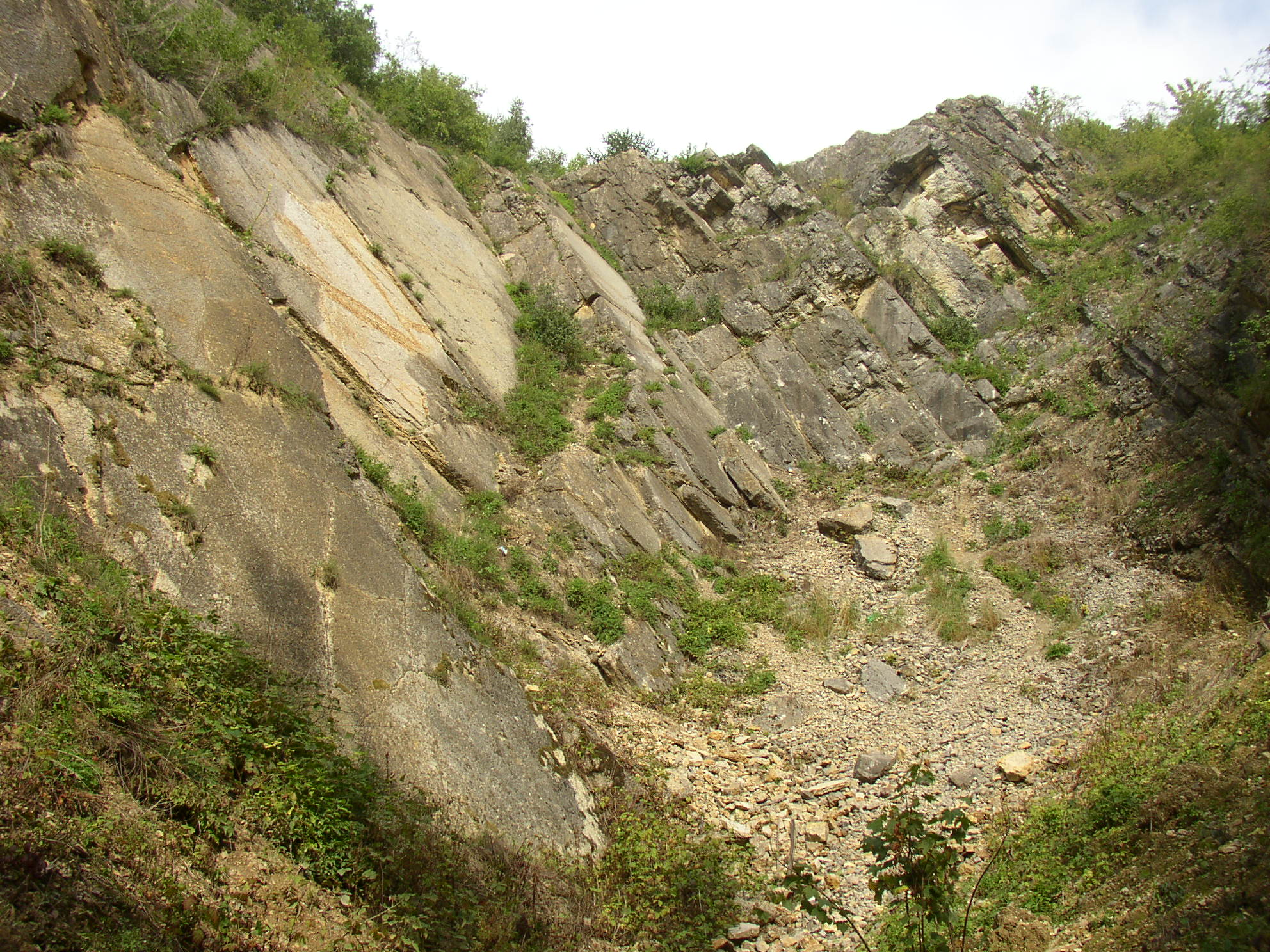 Defunct Prastav quarry in U Nového mlýna National Natural Monument near Holyně, SW suburb of Prague, Czech Republic. Western and northern part of the quarry as seen from entrance. The site has been internationally recognized as parastratotype (additional boundary) beteen Early and Middle Devonian (Einsian and Eifelian), the definition point being first appearance of Polygnathus costatus partitus conodont.